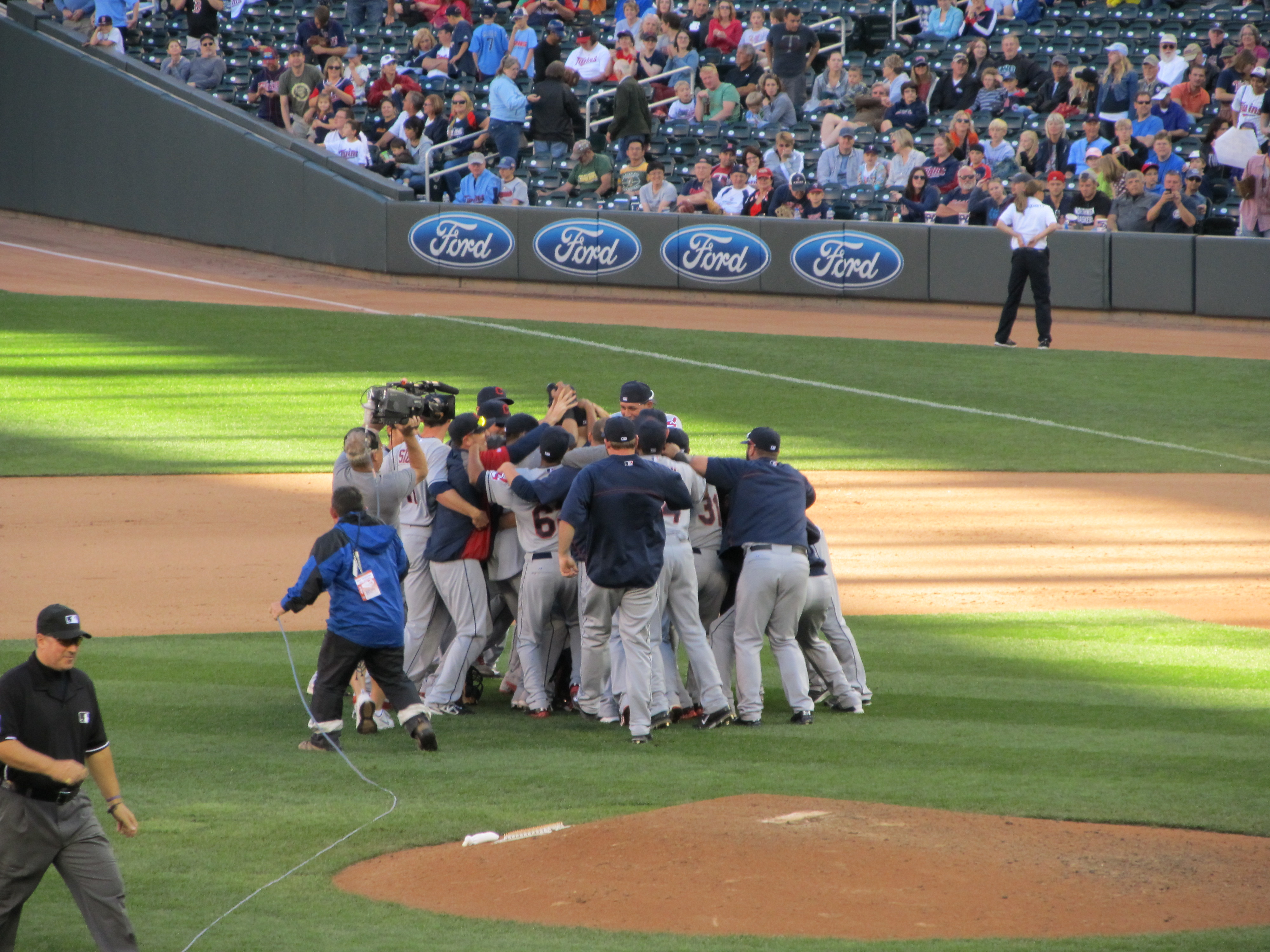 The Cleveland Indians celebrate after defeating the Minnesota Twins 5-1 at Target Field and clinching the AL wild card. September 29, 2013. Taken at Target Field by amateur photographer.